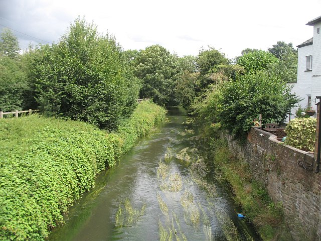 Kenwater The River Lugg splits into several courses through and around Leominster. The branch running through the town is called Kenwater. View from a footbridge by the Priory.